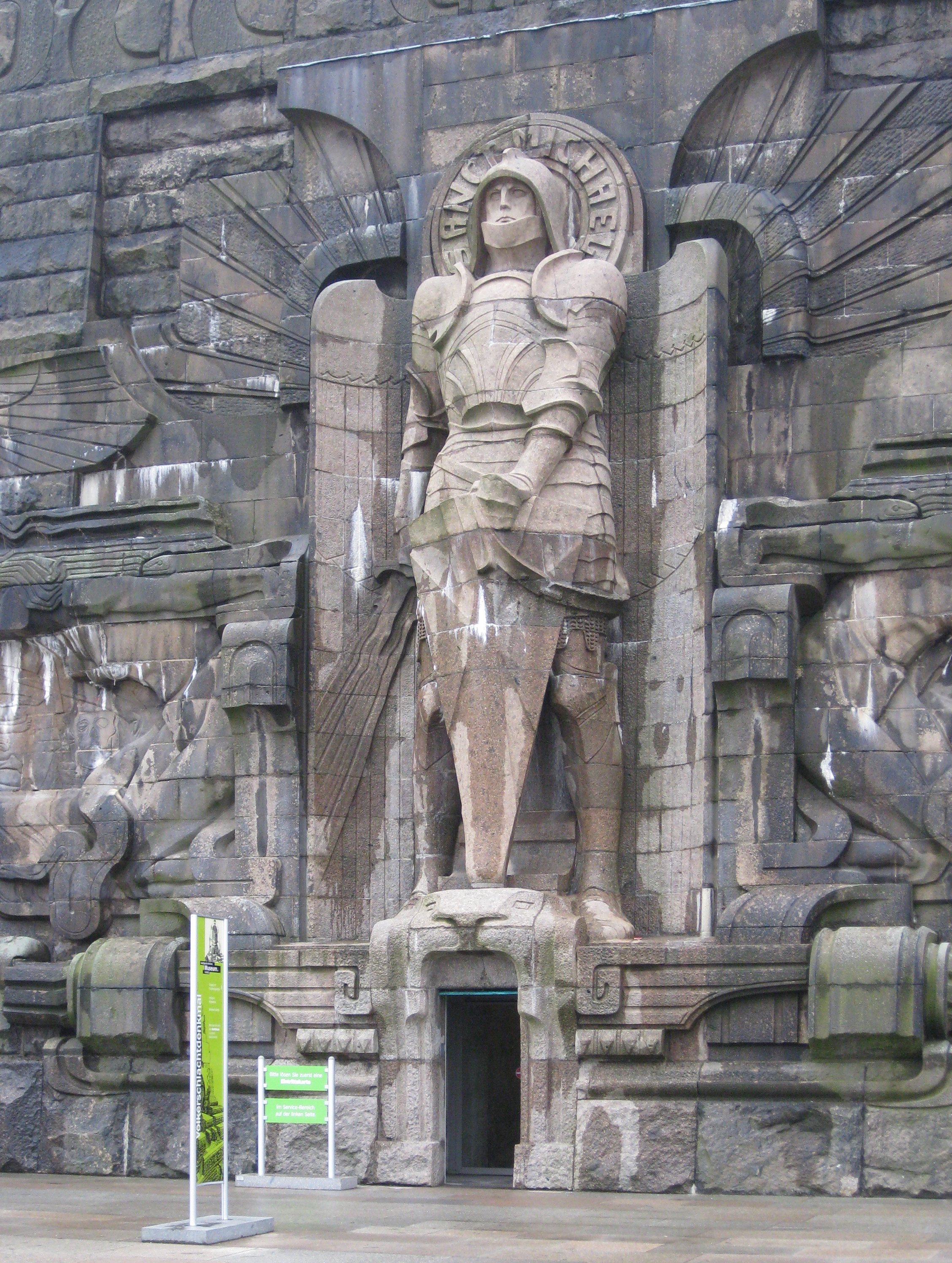 Archangel Michael at the entrance to the interior of the Völkerschlachtdenkmal (Monument of the Battle of the Nations) in Leipzig, Germany